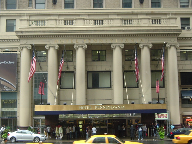 The front of Hotel Pennsylvania, taken from across 7th Avenue.